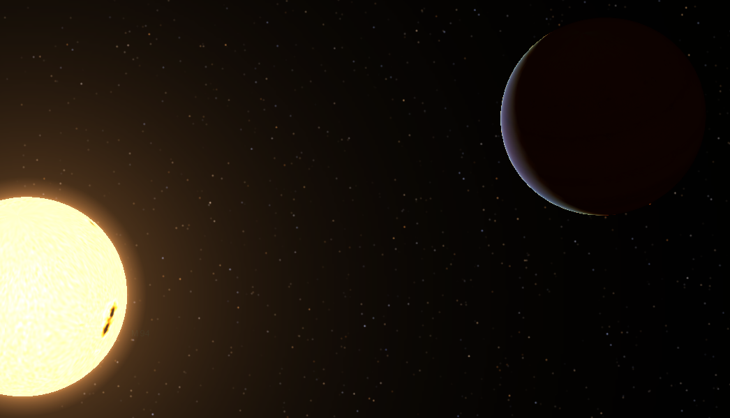 Young star AA Tauri and substellar companion